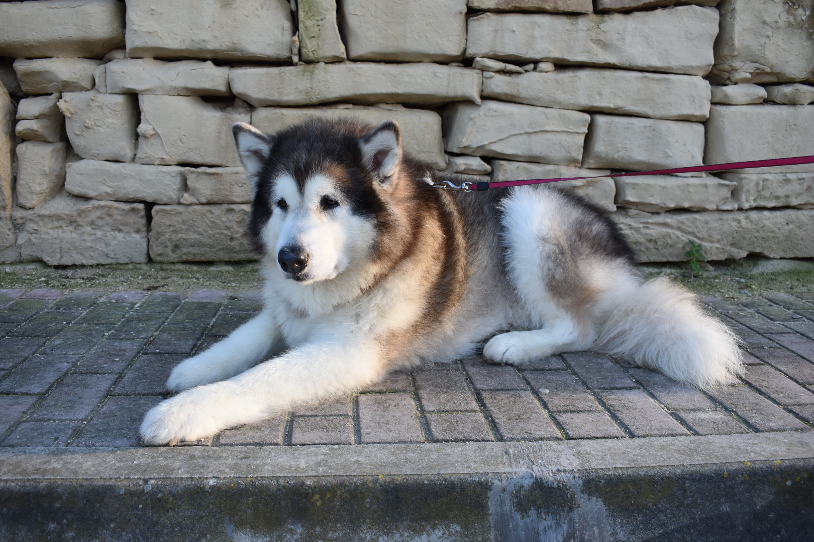 Alaskan Malamute